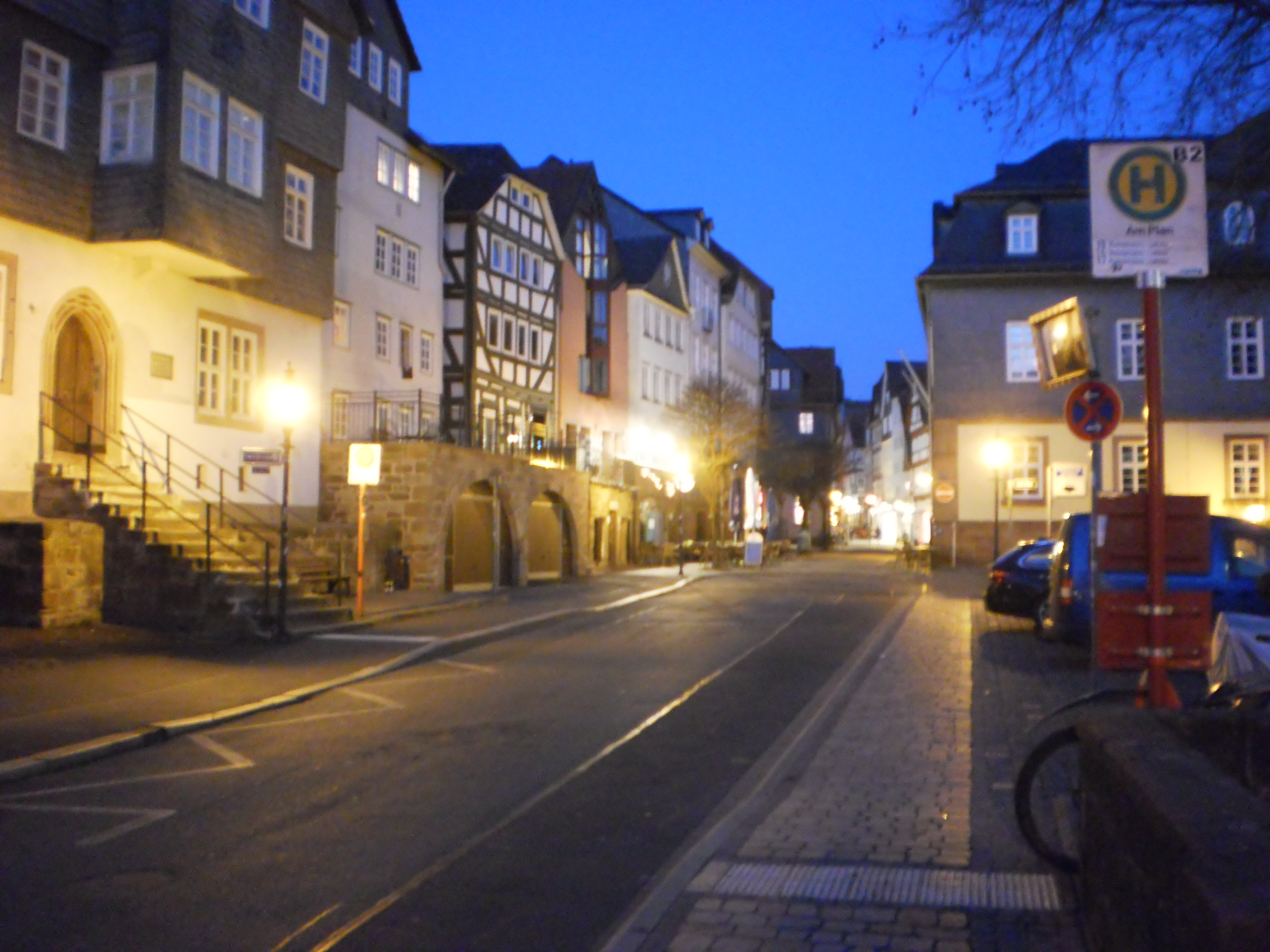 An evening walk (night in Marburg), photo taken on 17 March 2016, from bus stop 'Am Plan' (Barfüßerstraße), near the former city gate Barfüssertor. You can go from here at the beginning of old town Marburg to the town hall (with mouseover you can see more Commons-photos with links to the next photo descriptions), or take the alleyway 'Gehrensgässchen' between the old houses in the left, up to Kugelgasse and middleage church Kugelkirche: From there the gate Kalbstor is near. The next stairs Ludwig-Bickel-Treppe in Ritterstraße goes up to the Landgrafenschloss castle. At the bus stop, for blind persons a tactile paving helps to find the door of the bus. Above in the Traffic mirror, the entrance of the stairs Gehrensgässchen is visible, if you tip the link in the the yellow annotation-frame (only on a computer display).